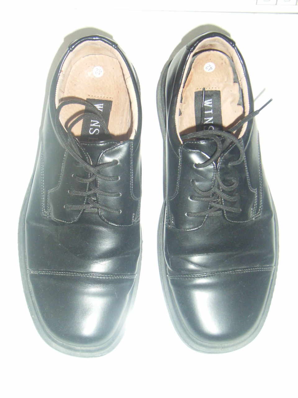 皮鞋 shoe Photo created by me.